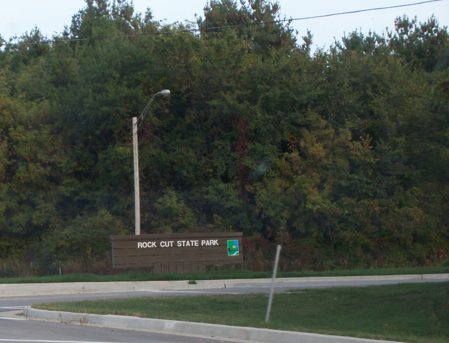 Looking east at the sign for Rock Cut State Park on Illinois Route 173.